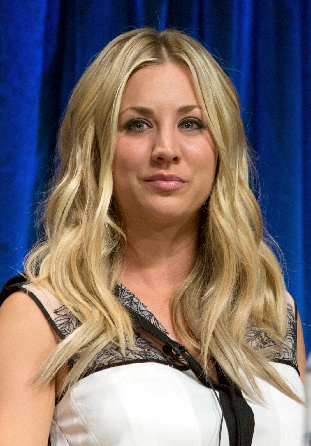 Kaley Cuoco at PaleyFest 2013 for the TV show "Big Bang Theory"